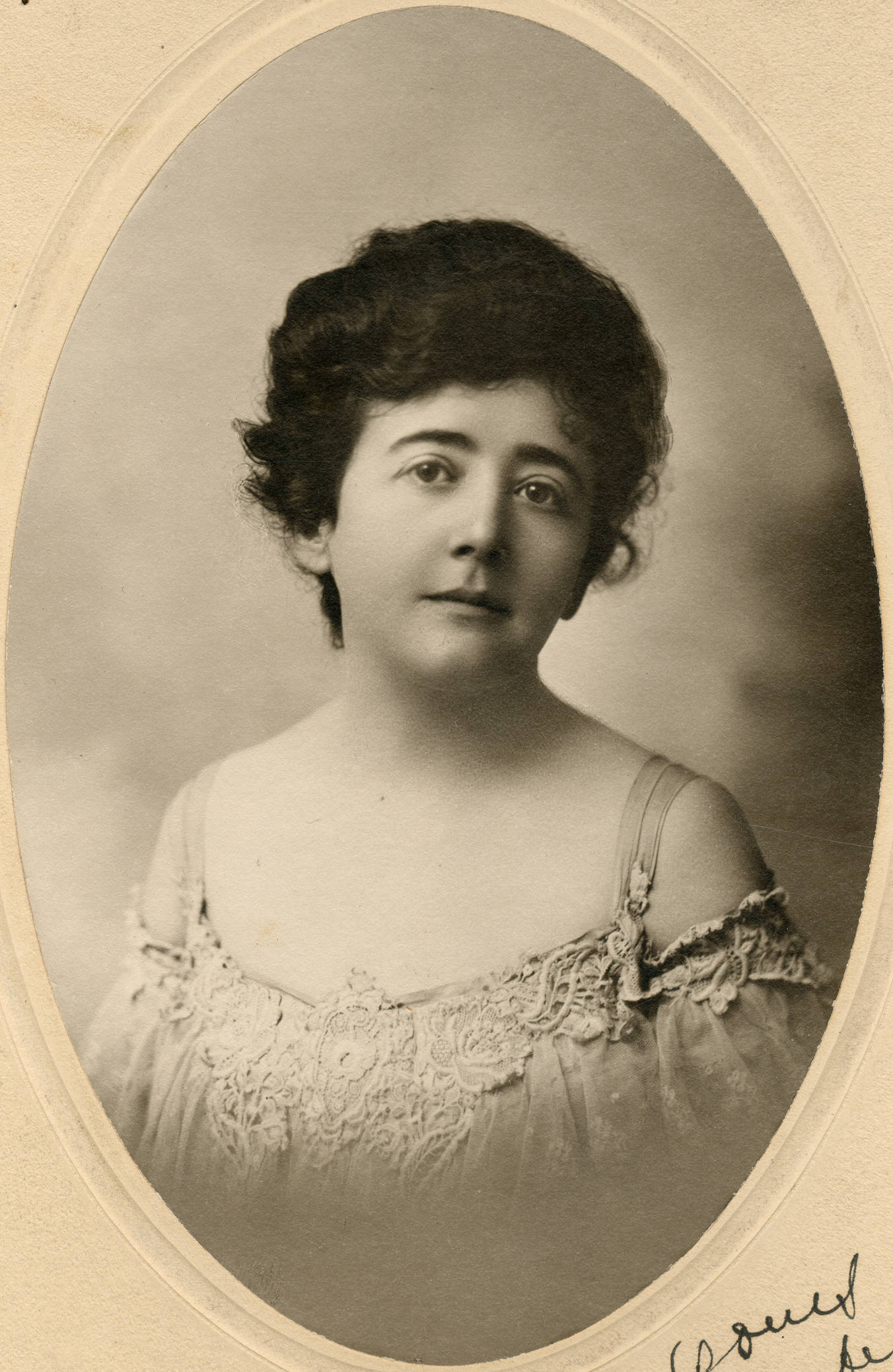 Mabel Wright, stage actress Subjects: actresses